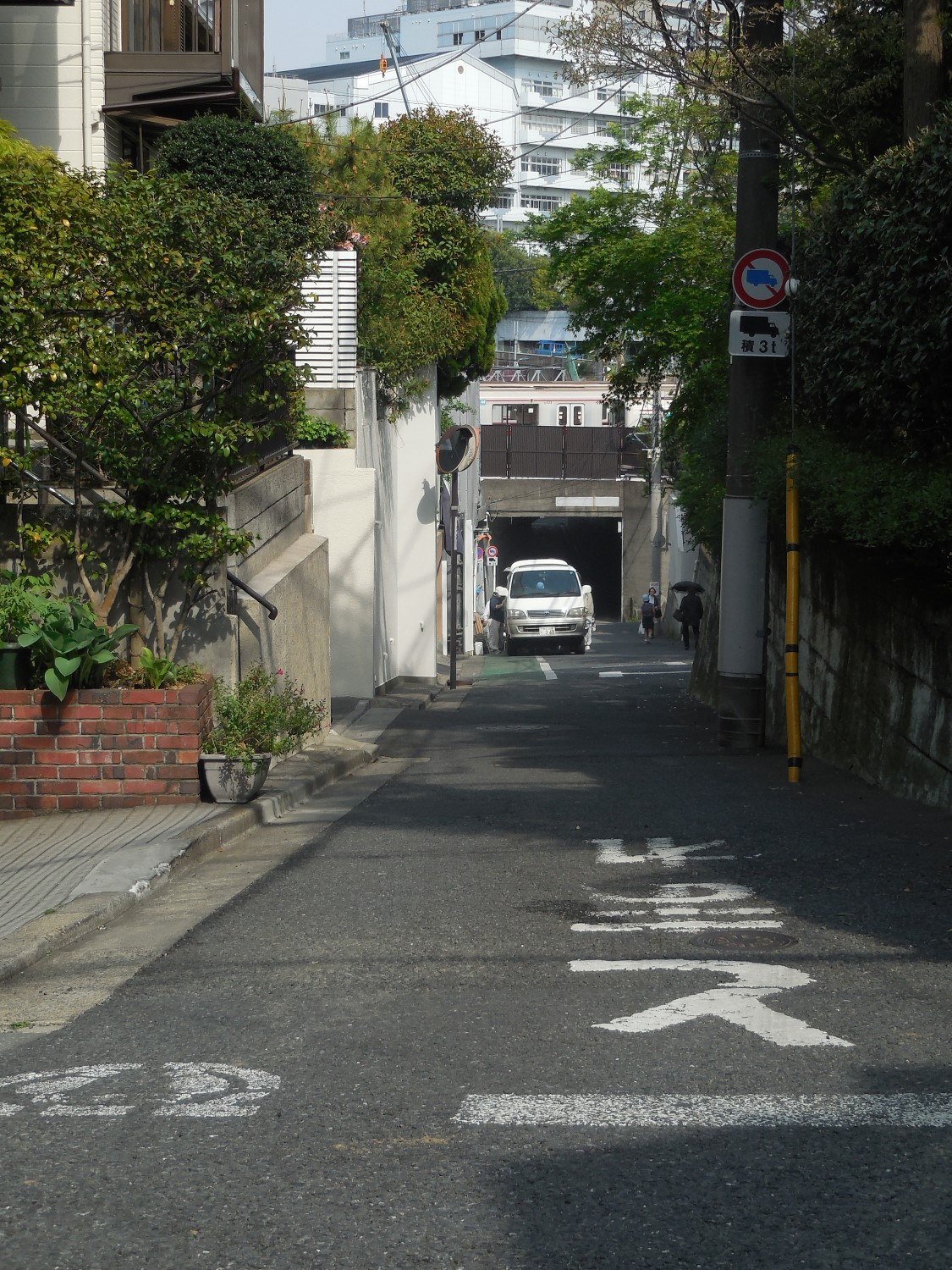 Christian slope at tokyo